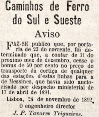 Advertisement of the portuguese company Caminho de Ferro do Sueste (Southeastern Railway) about the end of the discounts on the transport of cork to Messines train station. This image was published on the Diario Illustrado newspaper No. 7086, of 17th December 1892, and scanned by the Biblioteca Nacional de Portugal.